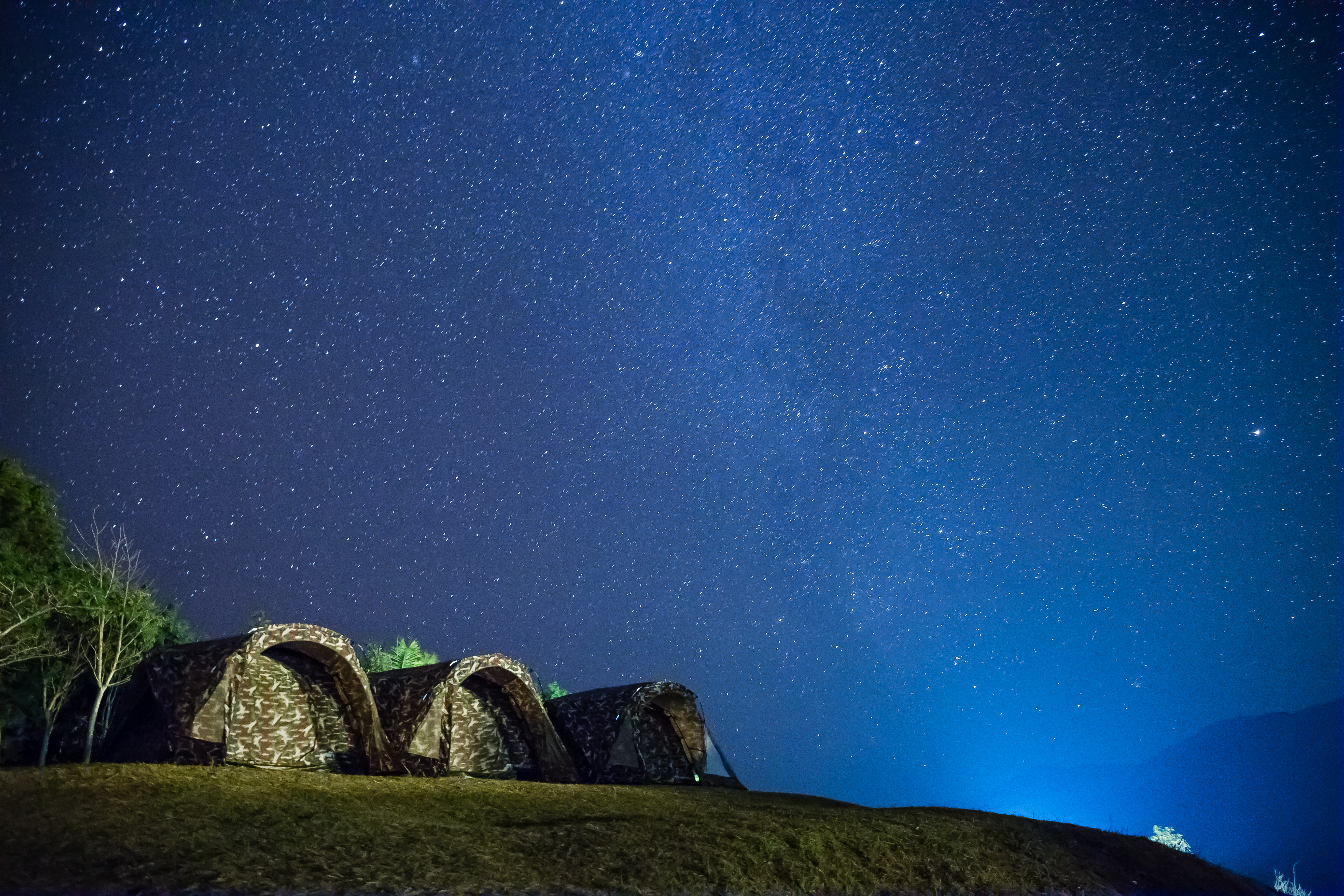 Camping with stars in the night sky at Doi Samoe Dao, Si Nan National Park, Nan Province